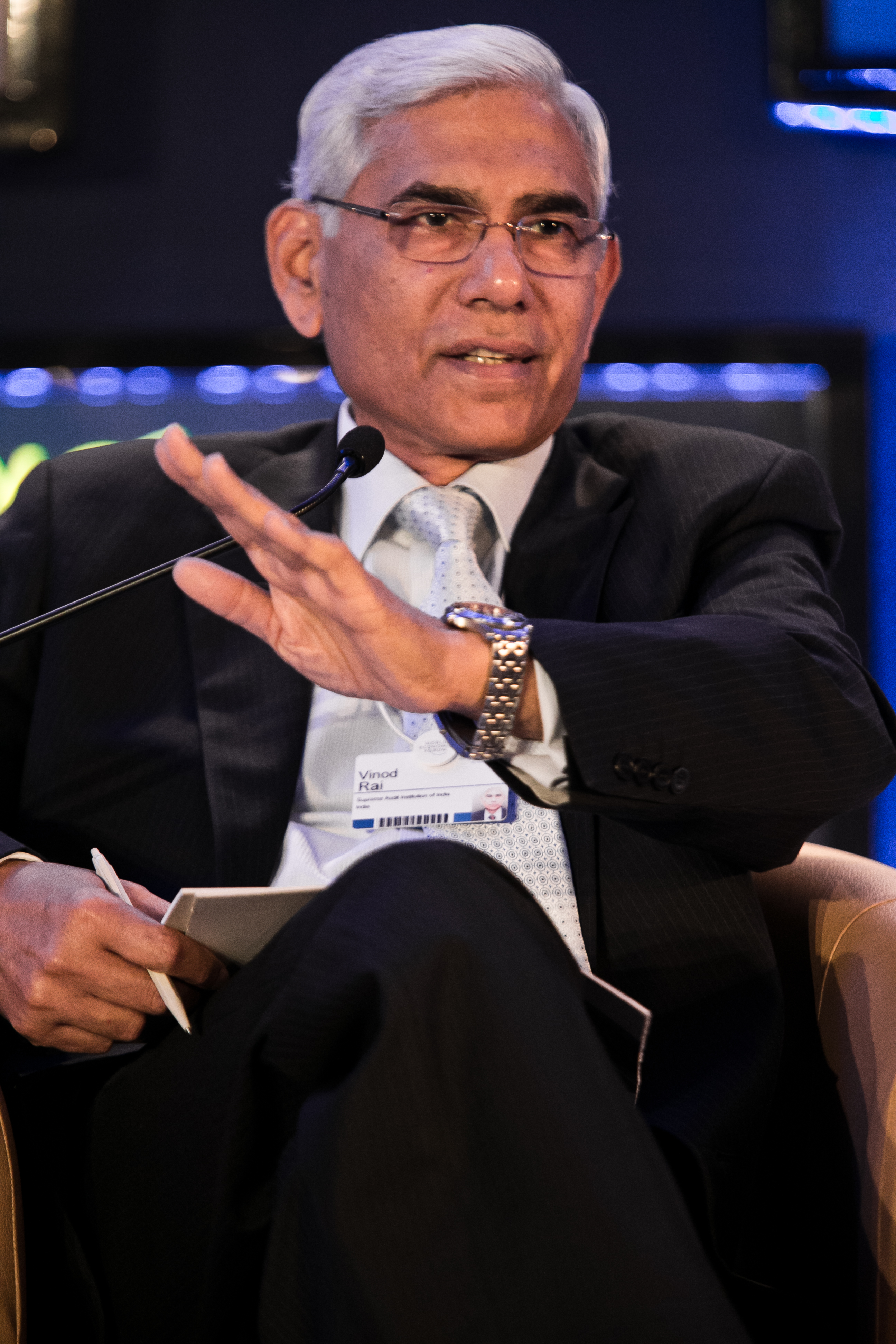 Vinod Rai, Comptroller and Auditor General of India at the World Economic Forum on India 2012